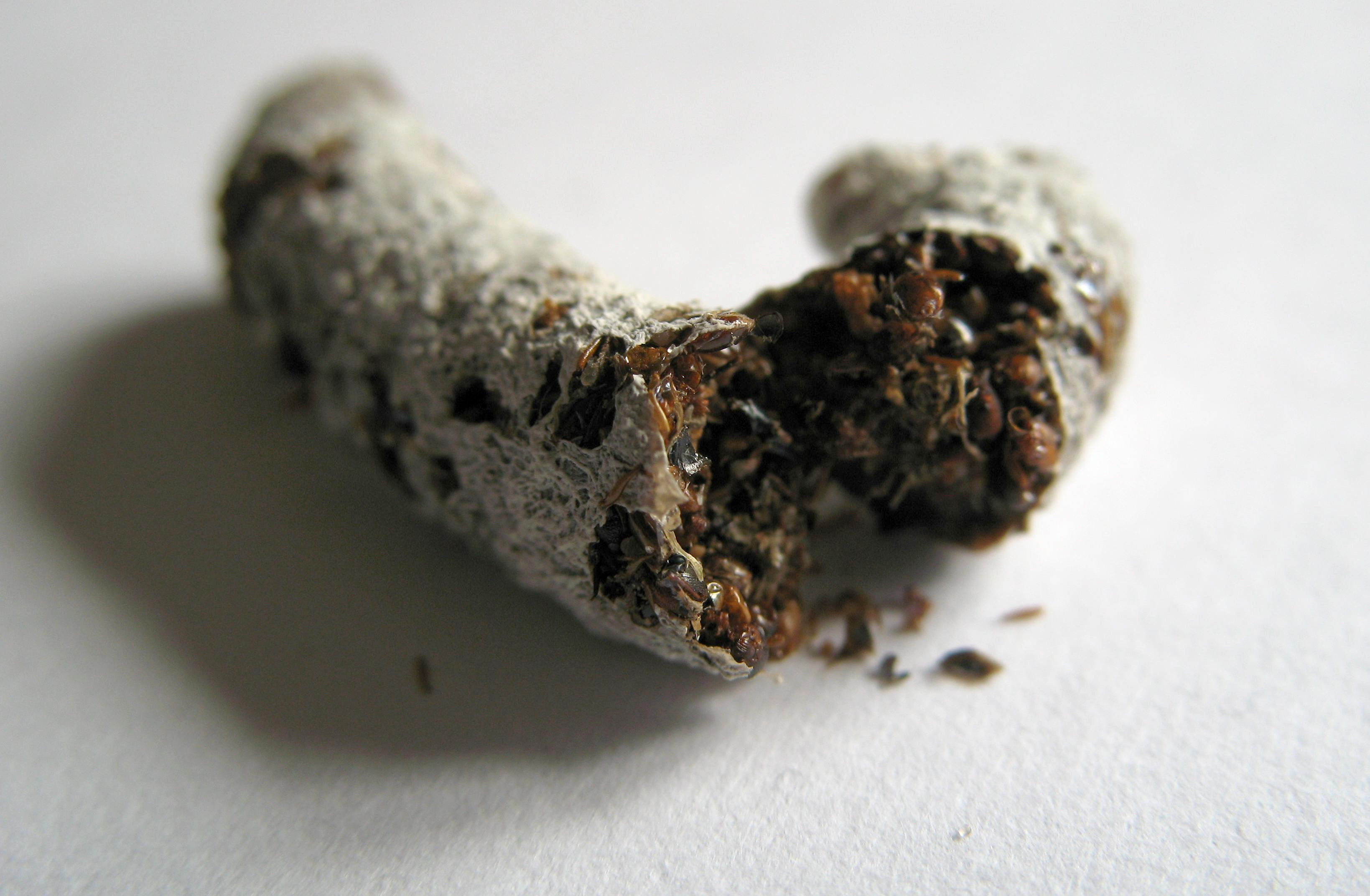 Green Woodpecker, Picus viridis, dropping broken apart to show ant remains